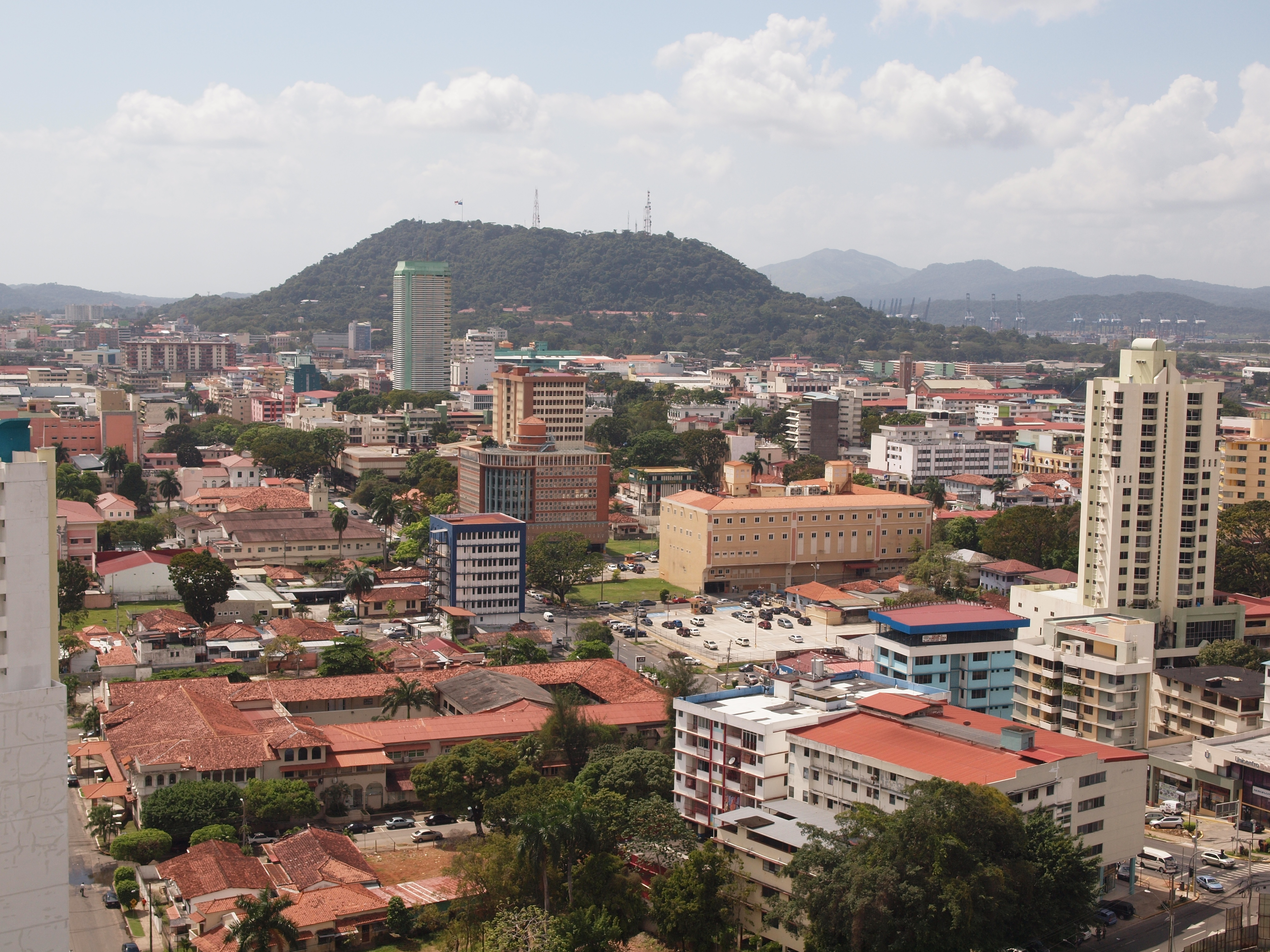 Buildings in Panama City